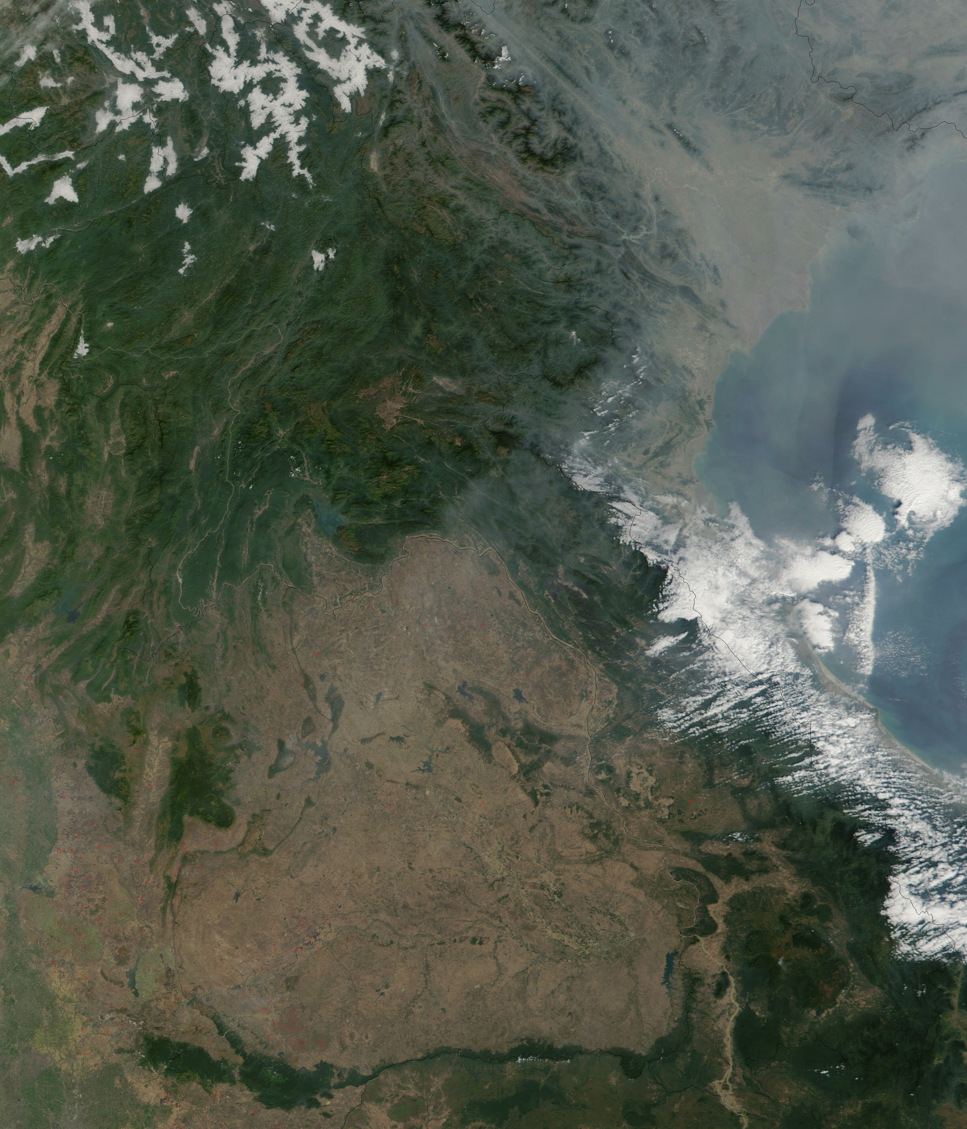 Satellite image of Laos in January 2002.